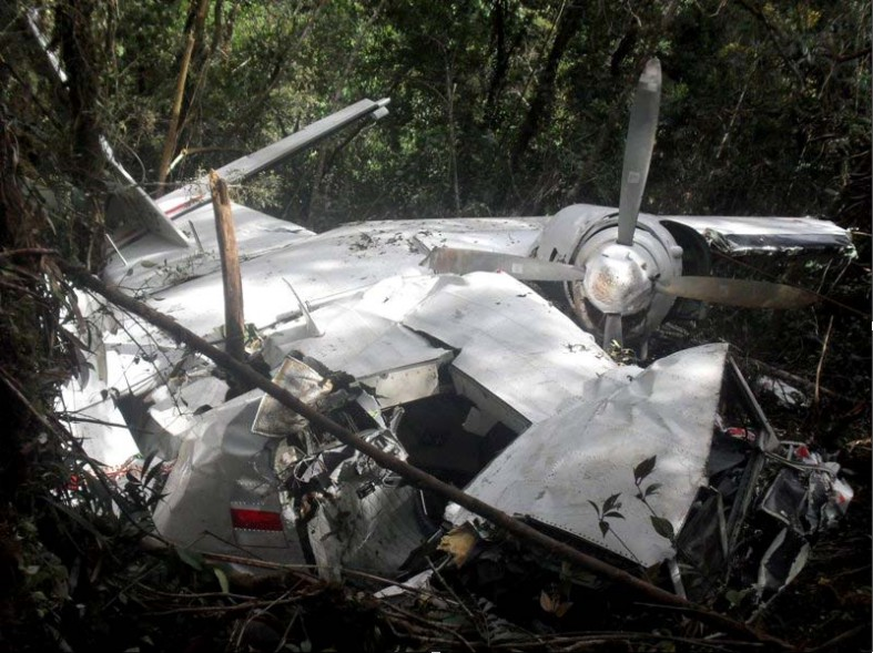 The crash site of NBA Flight 823 which killed all 18 people on board